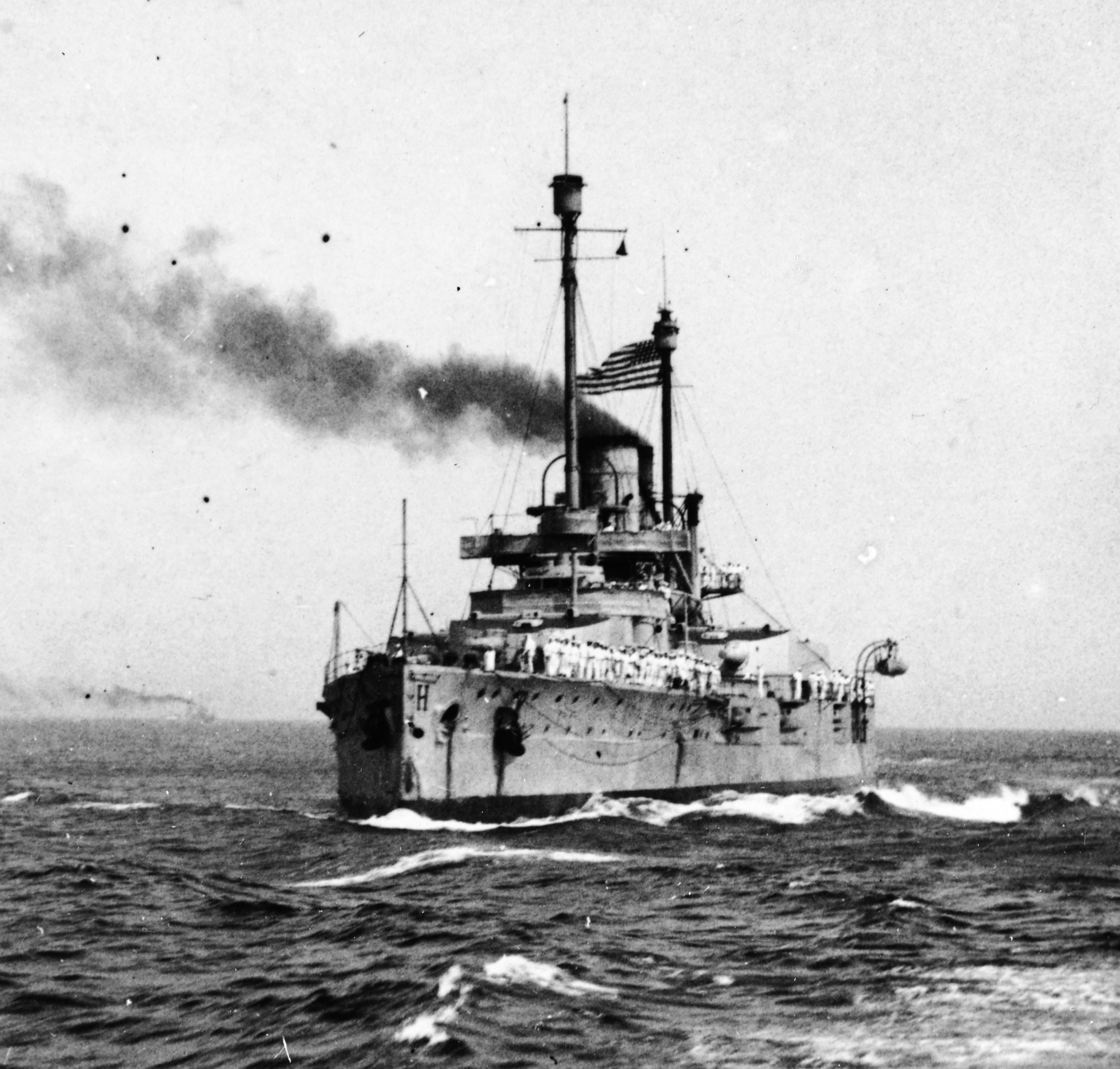 ex-German battleship SMS Ostfriesland. Photographed while operating as a US Navy ship, April to September 1920. The ship was obtained by the US as a war reparations transfer and was expended in 1921 as a target for aerial bombing experiments.